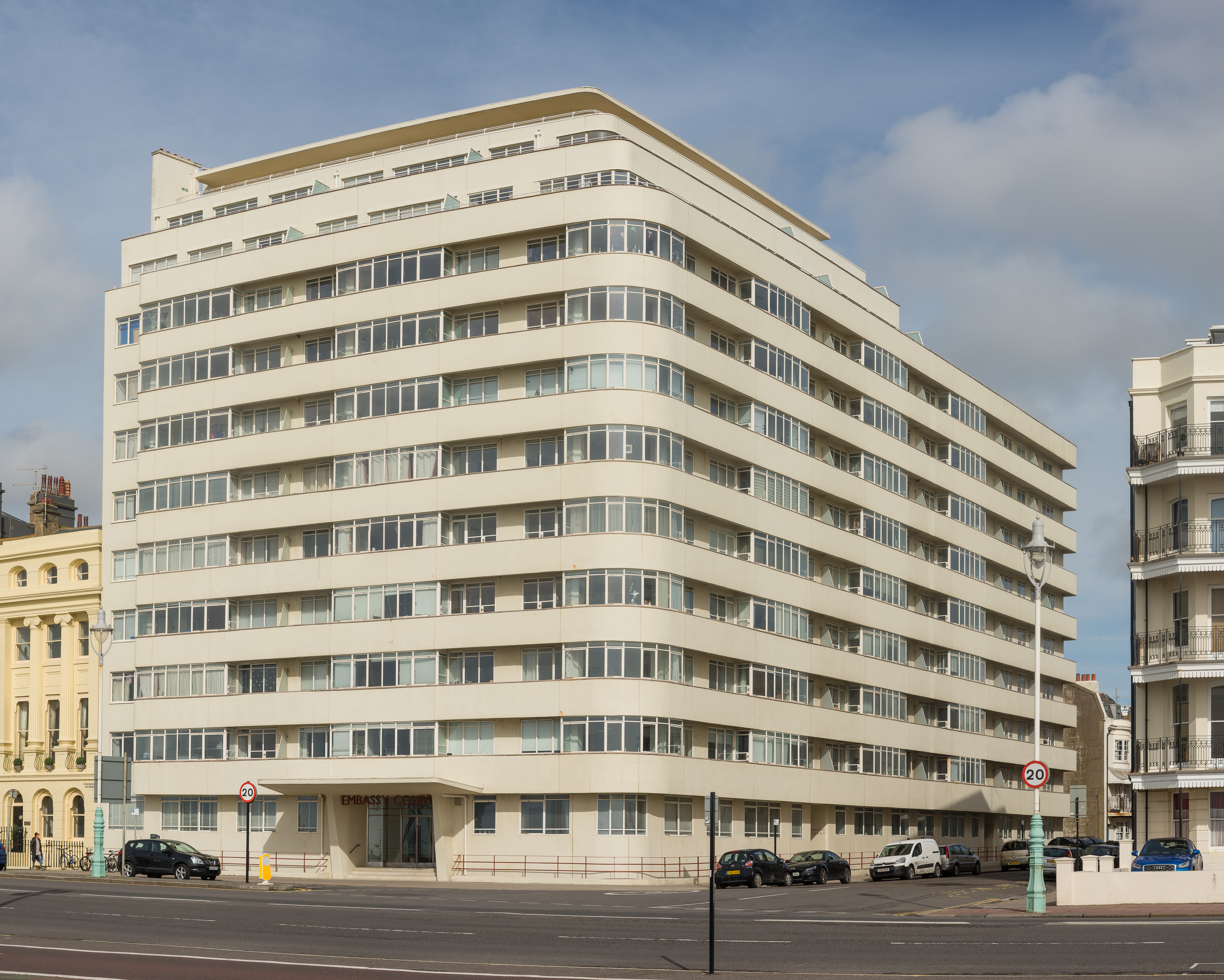 Embassy Court in Brighton, England. Built 1935. Architect Wells Coates. NOTE: This image is a panorama consisting of multiple frames that were merged or stitched in software. As a result, this image necessarily underwent some form of digital manipulation. These manipulations may include blending, blurring, cloning, and colour and perspective adjustments. As a result of these adjustments, the image content may be slightly different from reality at the points where multiple images were combined. This manipulation is often required due to lens, perspective, and parallax distortions.